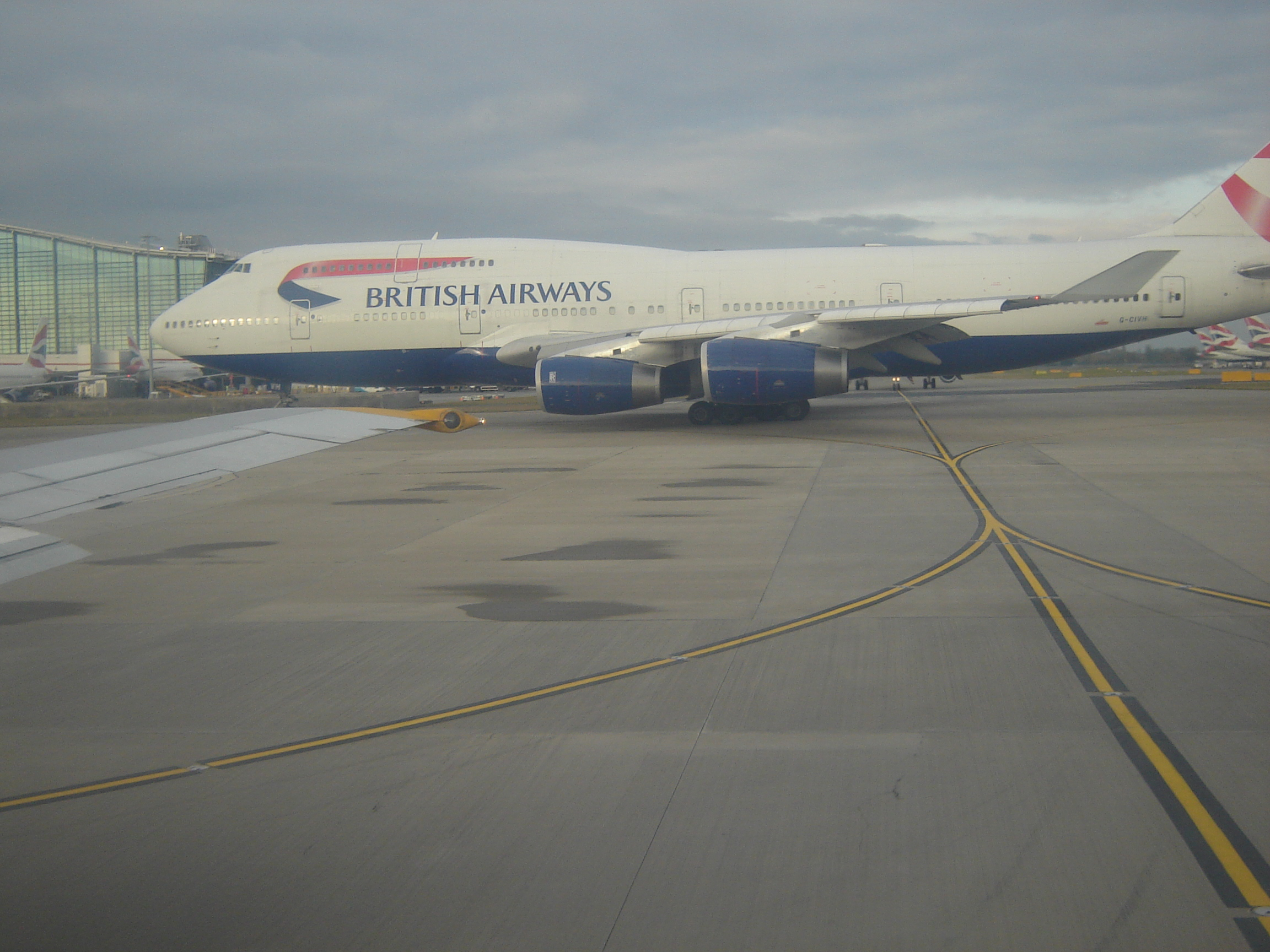 London Heathrow Airport